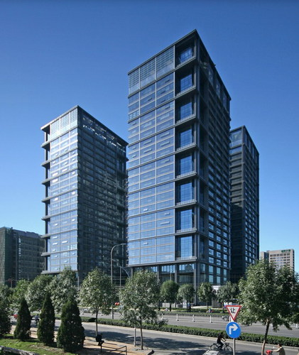 Haidian, Central of Beijing by itmso